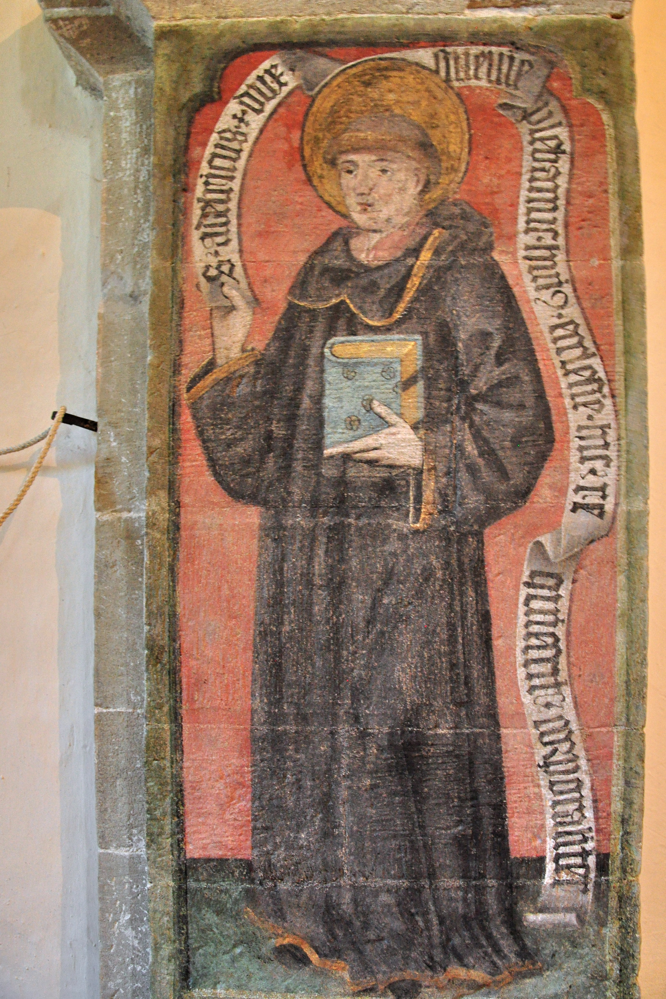 Saint Adalrich [?], St. Peter und Paul was built in 1142, a former building is first mentioned in 970 A.D. St. Peter und Paul was for centuries a Parish church, situated on the Ufenau island (Zürichsee) in Switzerland. Ulrich von Hutten (*1488; †1523) refuged on the island and is buried besides St. Peter und Paul.